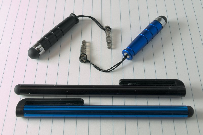 A few inexpensive capacitive styluses for use with smartphones or tablets. Lanyard on shorter ones includes plastic plug designed for 3.5mm headphone jack.